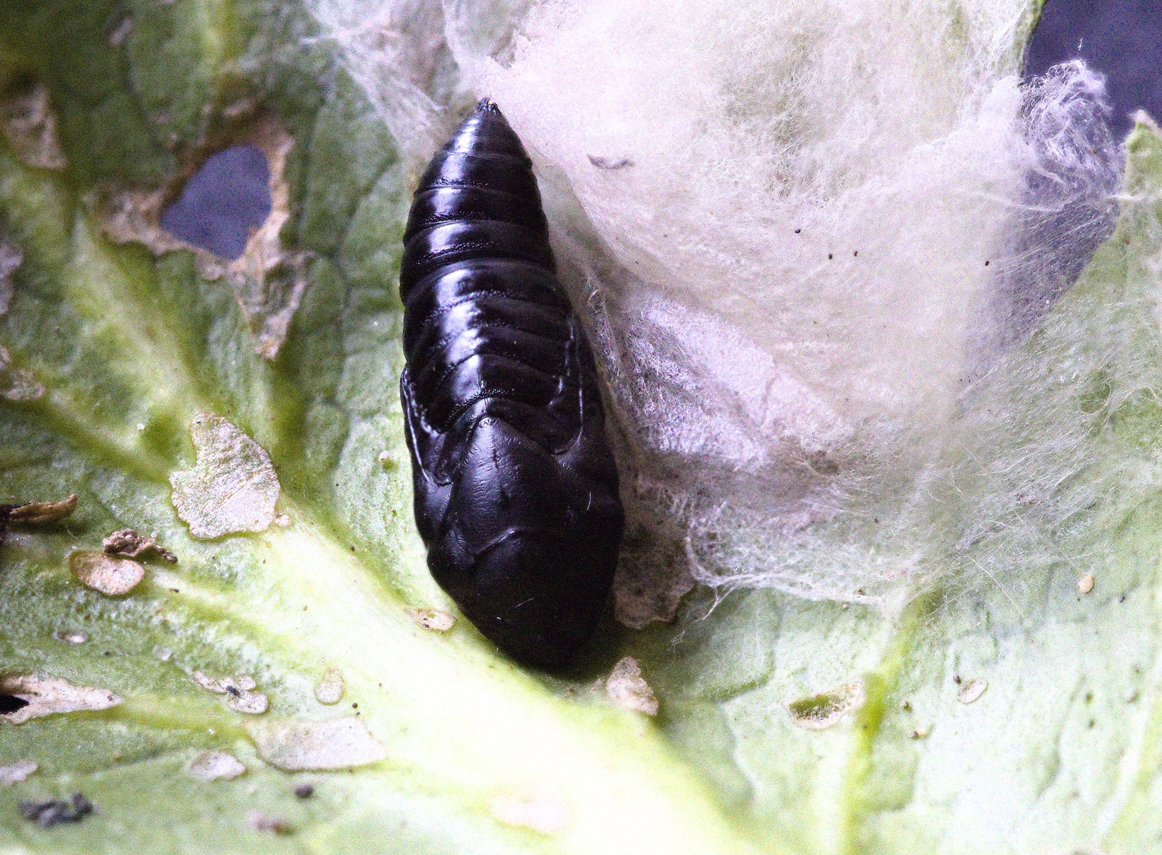 Silver Y